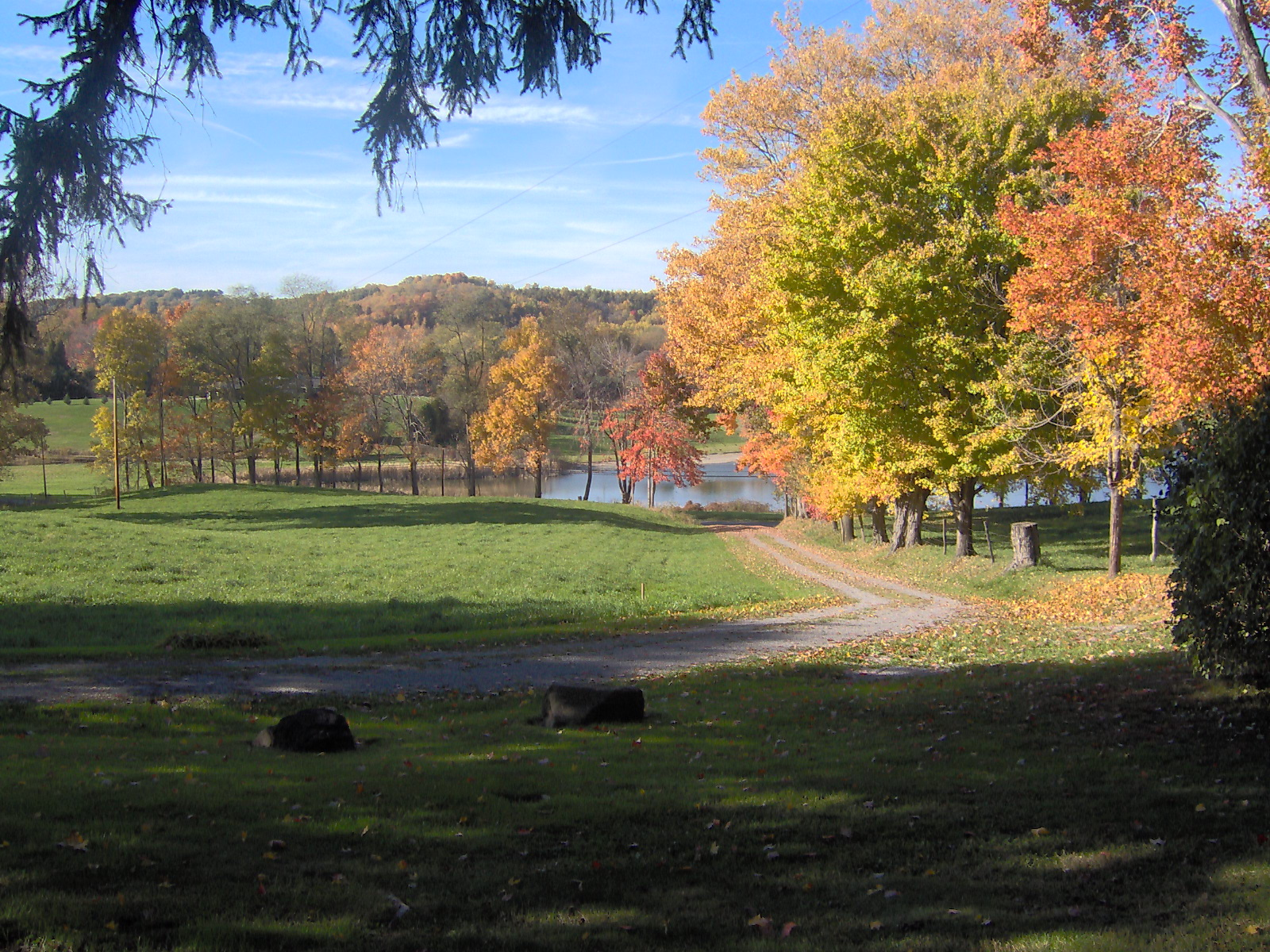 View of countryside in the southwest corner of Darlington Township, Beaver County, Pennsylvania, United States.